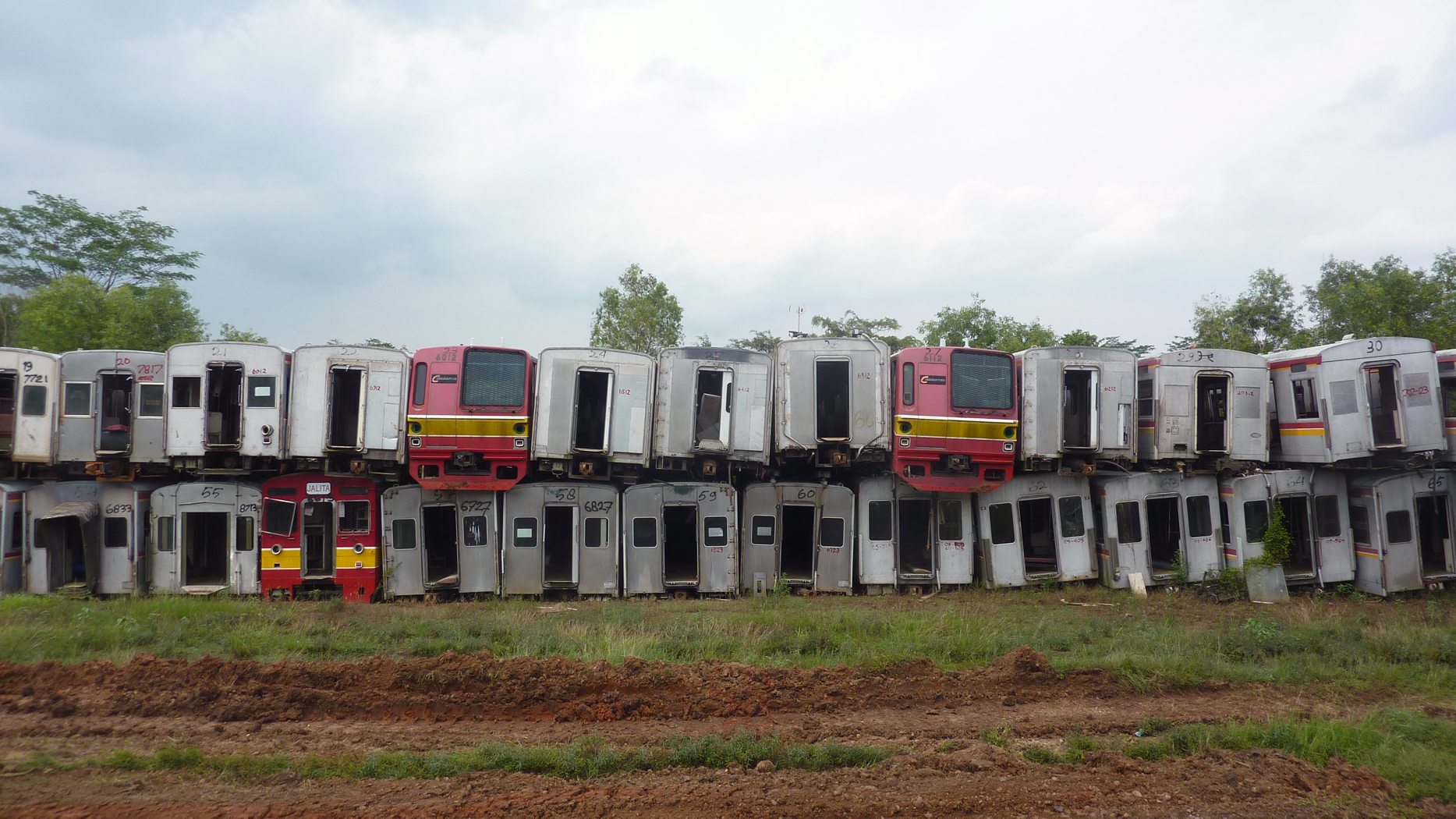 Unused cars of former Tokyo Metro 6000 series, 7000 series, 05 series, former Tokyu Corporation 8500 series, and former JR East 203 series in derelict condition sits in Cikaum Station in Subang Regency in Indonesia, December 2016. Cars pictured: - Top (left to right): 7721, 7817, 6612, 6712, 6012, 6512, 6412, 6312, 6112, 6212, 203-2, 202-123 - Bottom (left to right): 6833, 8713, 8613, 6727, 6827, 6823, 6723, 05-505, 05-405, 05-404, 05-504